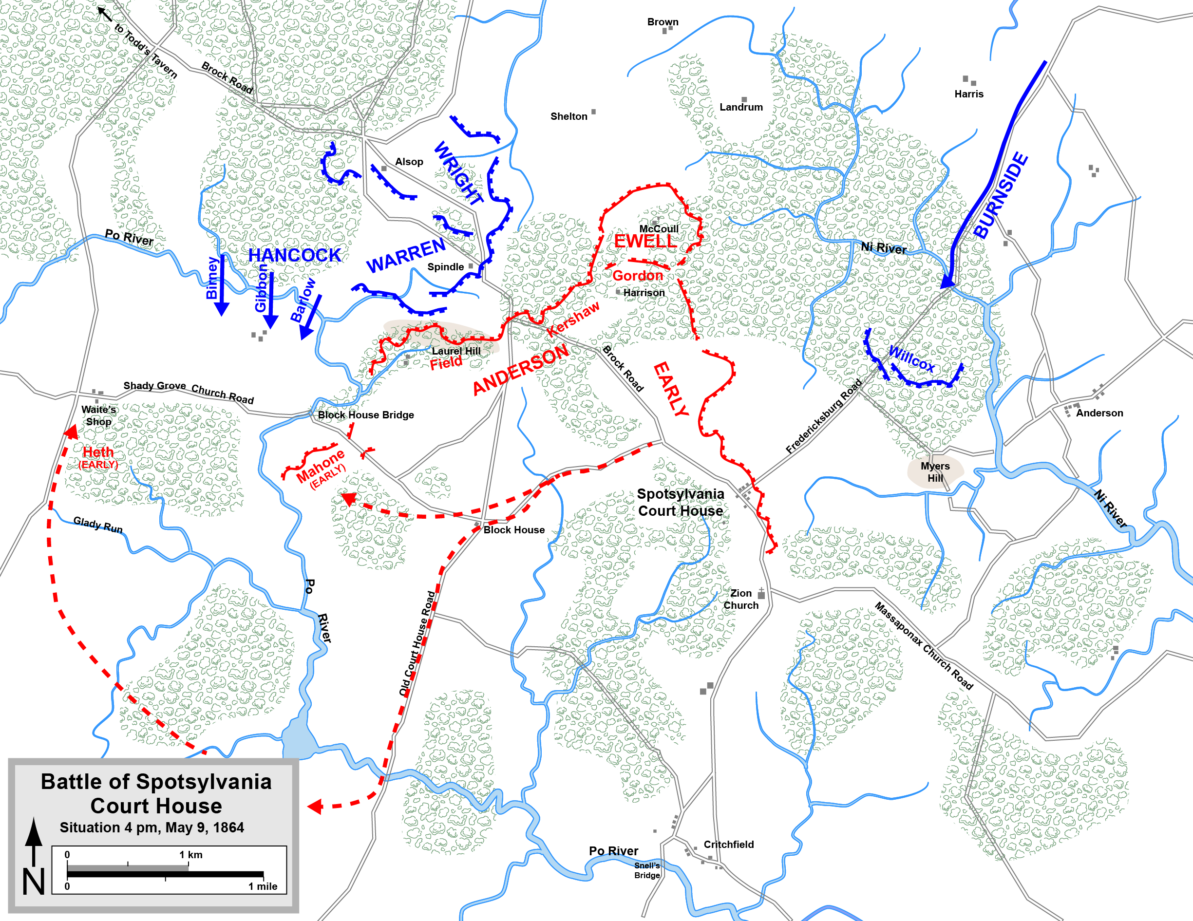 One of a series of seven maps depicting the Battle of Spotsylvania Court House of the American Civil War. Drawn by Hal Jespersen in Adobe Illustrator CS5. Graphic source file is available at Attribution: Map by Hal Jespersen